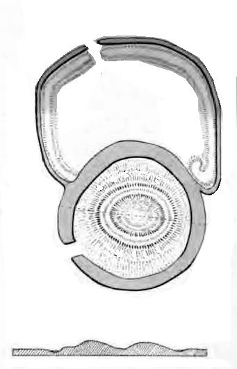 A Victorian plan of Denton Castle, cleaned up by Hchc2009